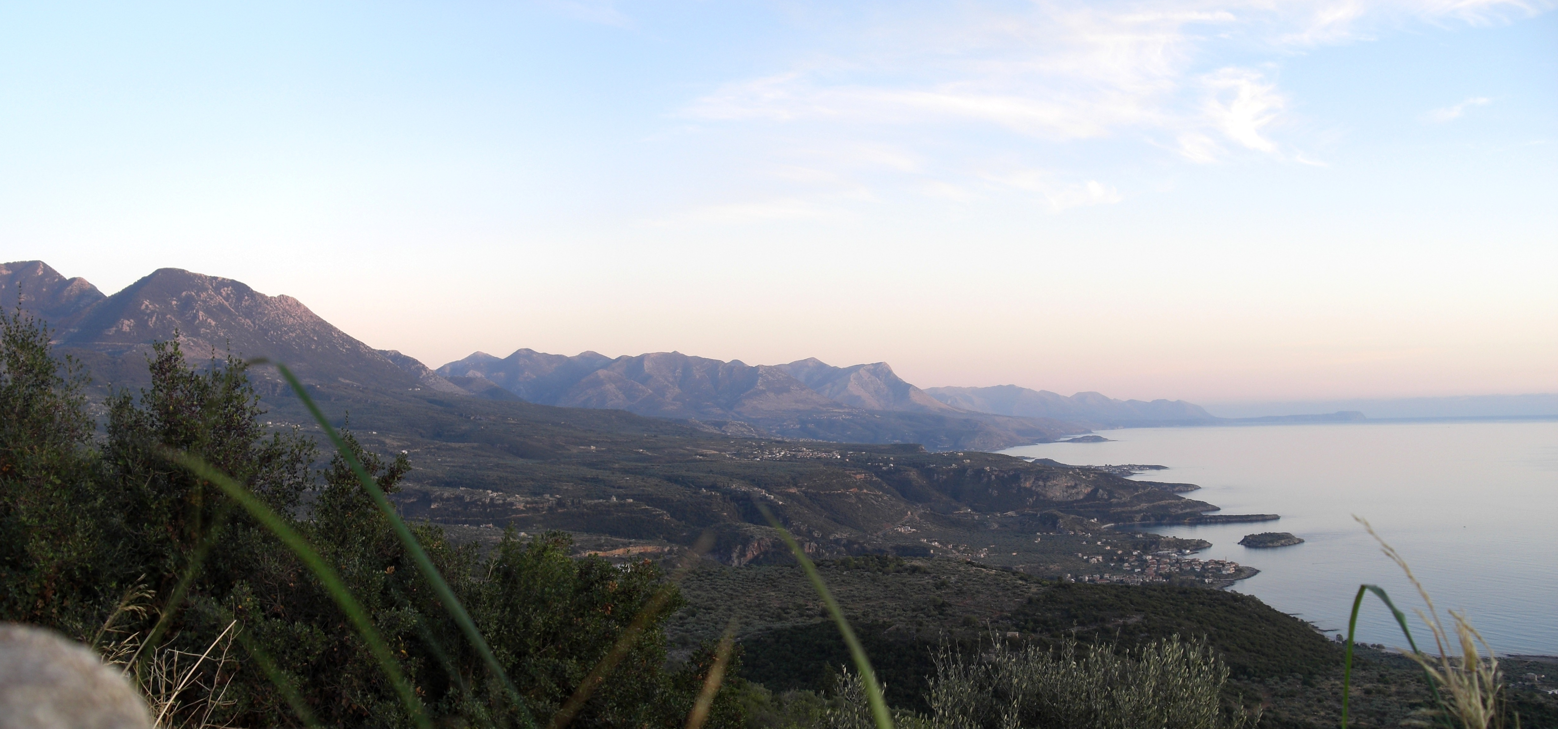 View of Kardamili and the mountains of the southern Mani in Greece.